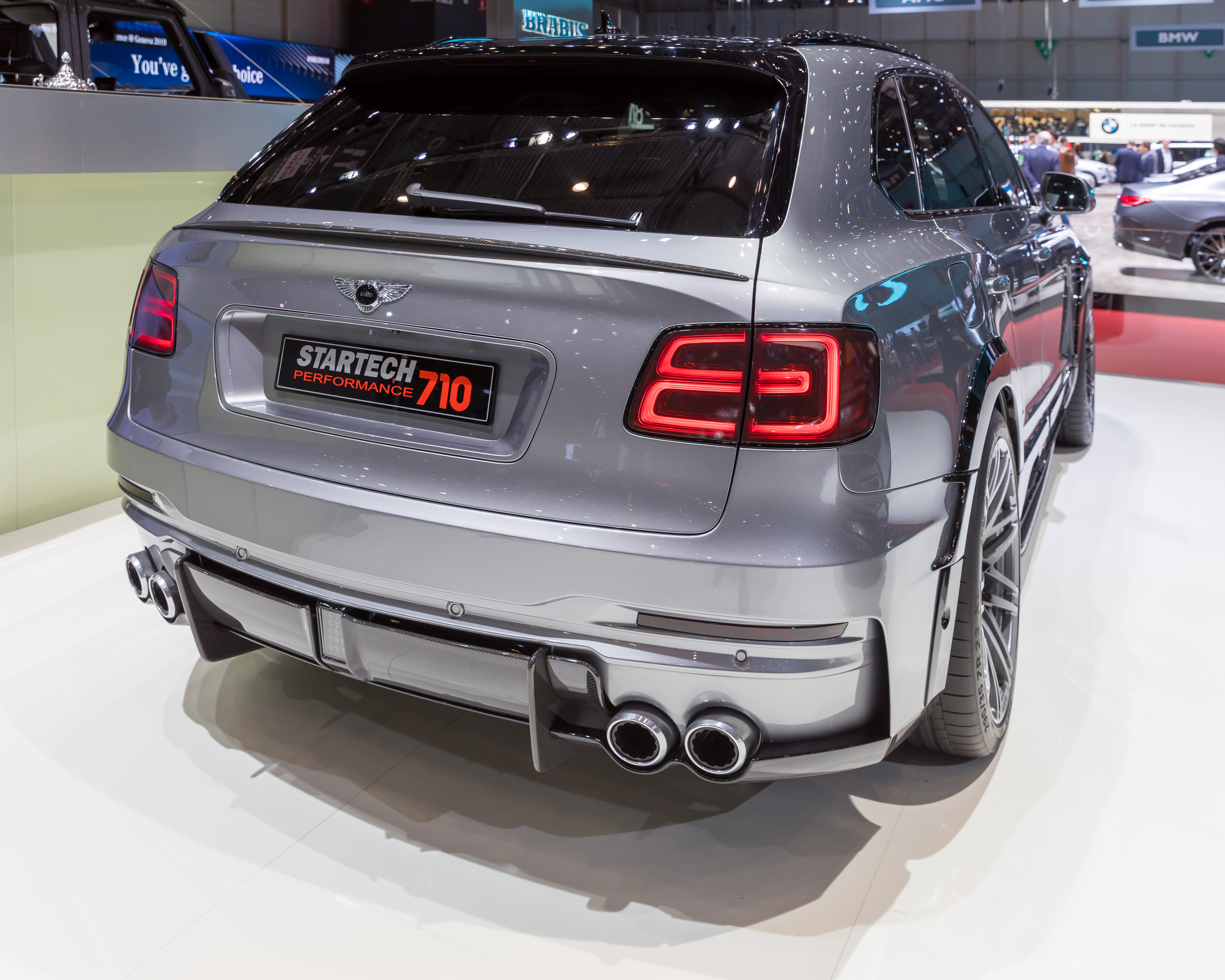 Geneva International Motor Show 2018